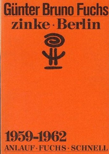 Book cover of Guenter Bruno Fuchs "Zinke, Berlin 1959-1962"